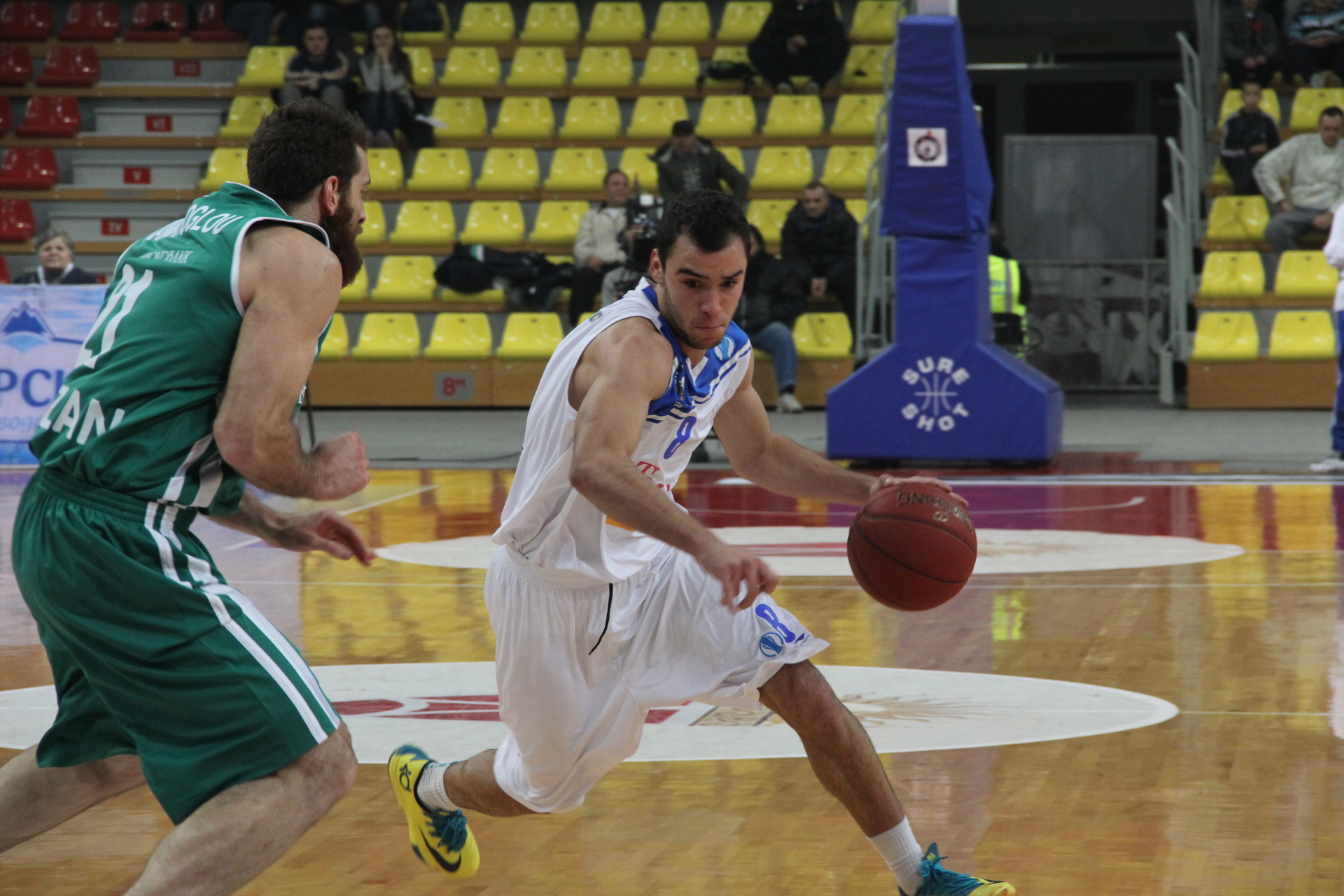 бобанмзт